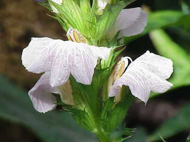 Species: Acanthus montanus Family: Acanthaceae Image No. 1